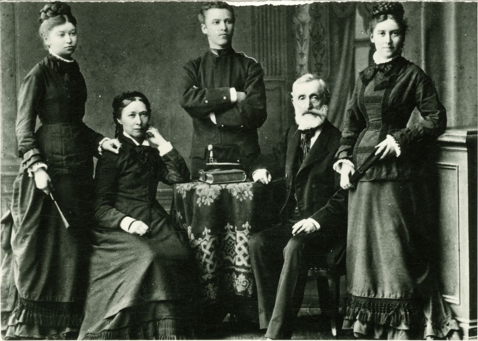 Sámuel Szűcs (1819–1889) Hungarian lawyer, diarist, local historian with his wife Henriette Herman (sister of Ottó Herman), and children Emma, Béla, Lujza